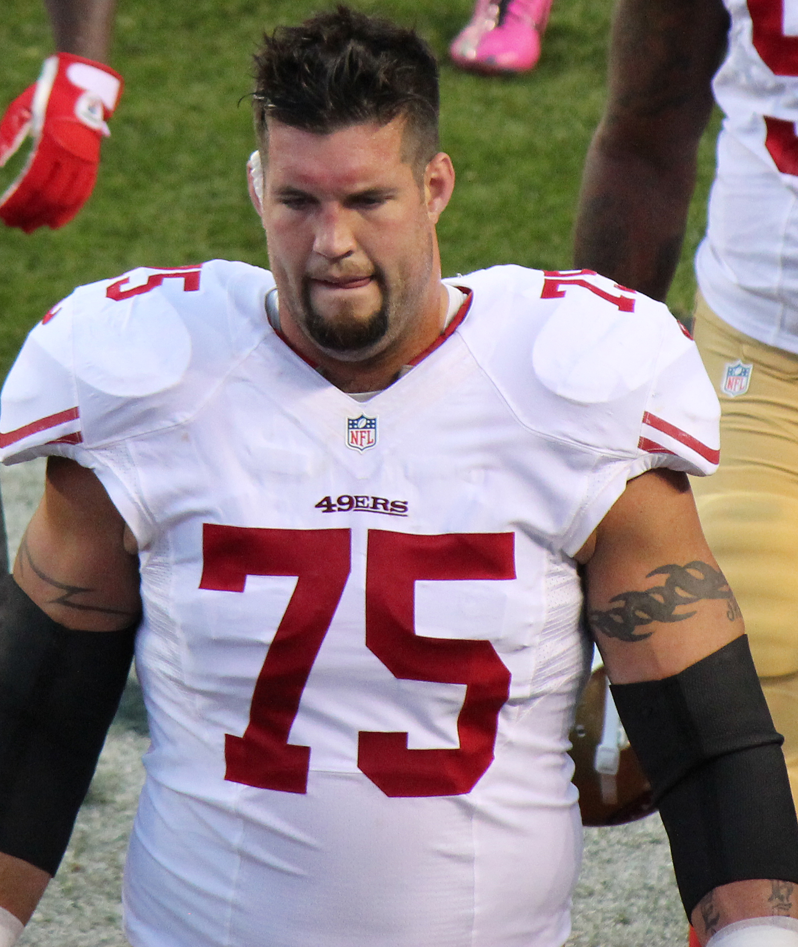 Alex Boone, a player on the National Football League.